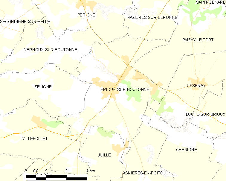 Map of French municipality Brioux-sur-Boutonne